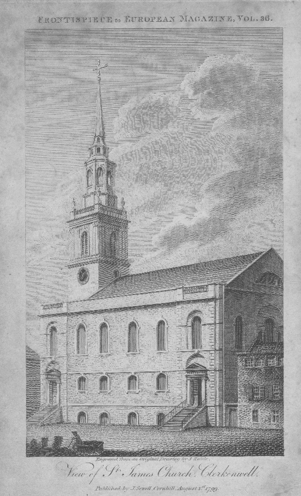 Frontispiece of the European Magazine, vol 36, 1st August 1799, featuring St James's Church, Clerkenwell.